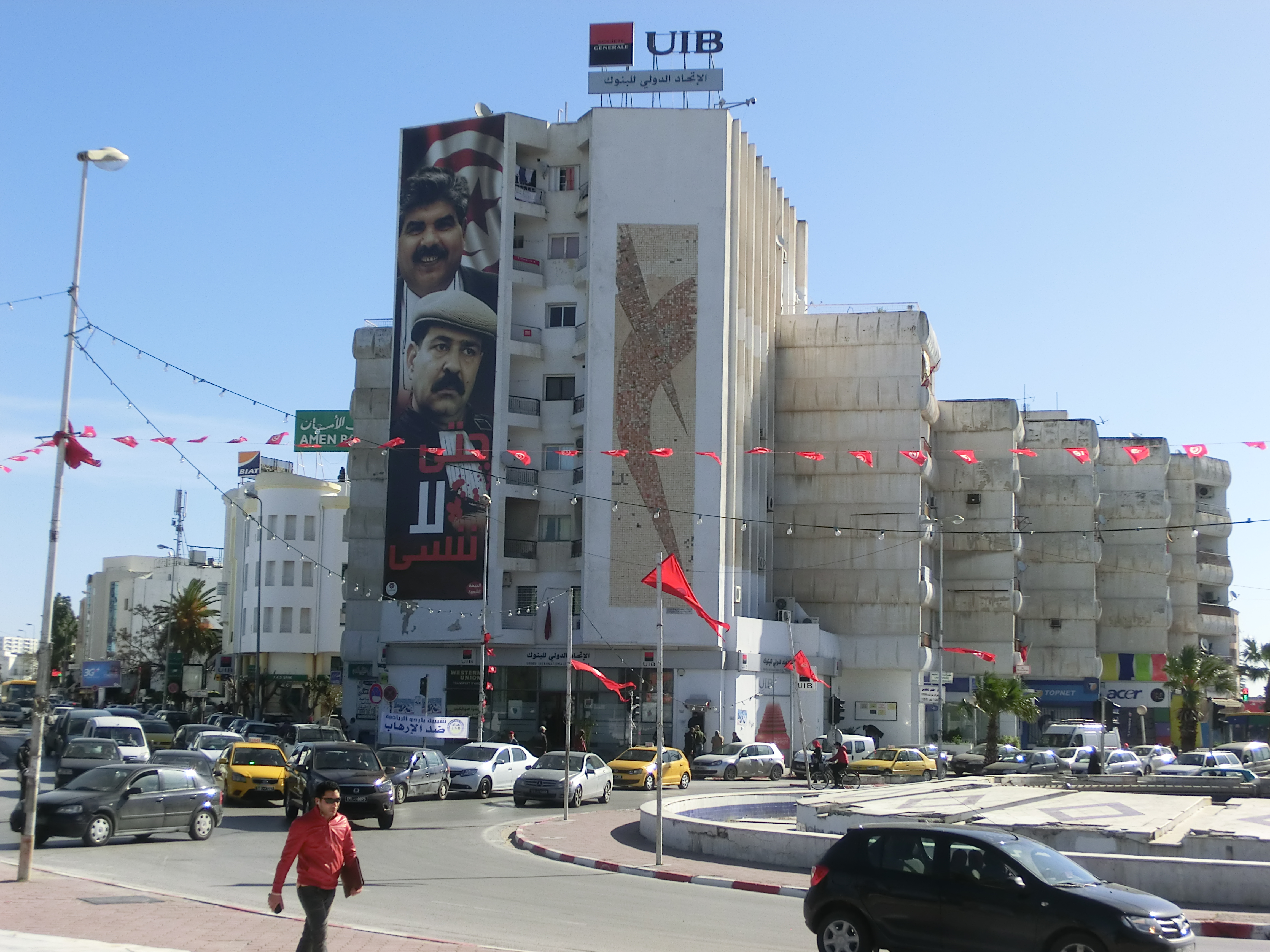 Portraits of Choukri Belaid and Mohammed Brahmi, assassinated politicians of the tunisian People's Front, aside of the tunisian parliament, Tunis, April 2015